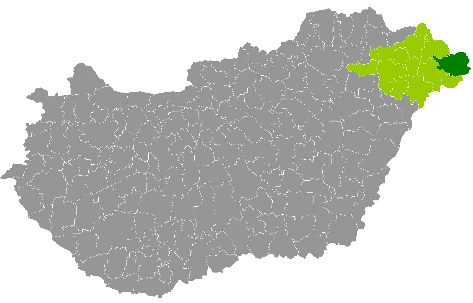 Location of Fehérgyarmat District, Szabolcs-Szatmár-Bereg, Hungary